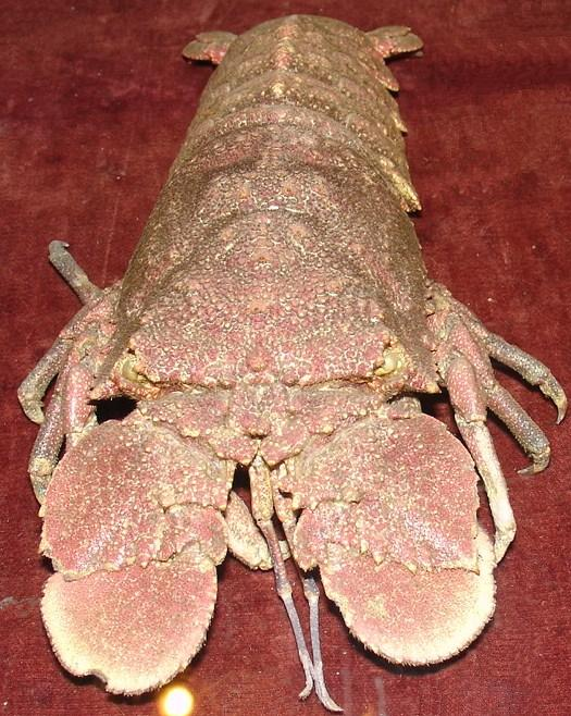 slipper lobster, Arctides antipodum